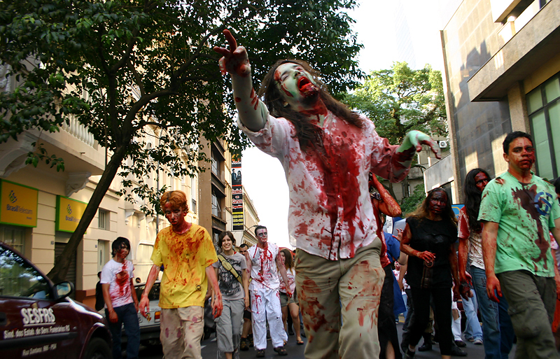 Zombie Walk in Porto Alegre, Brazil, 2007